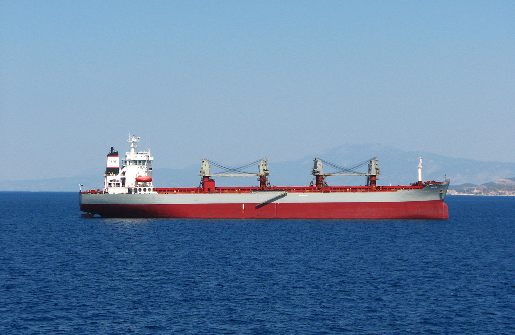 A Greek bulk carrier ship at sea.